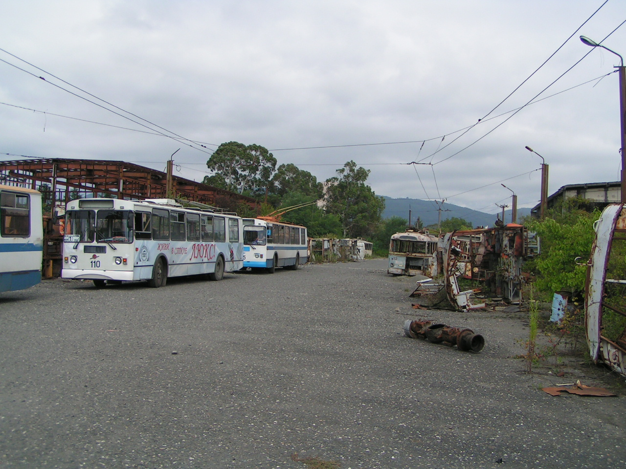 Trolleybus depot in Sukhumi, Abkhasia. 2006